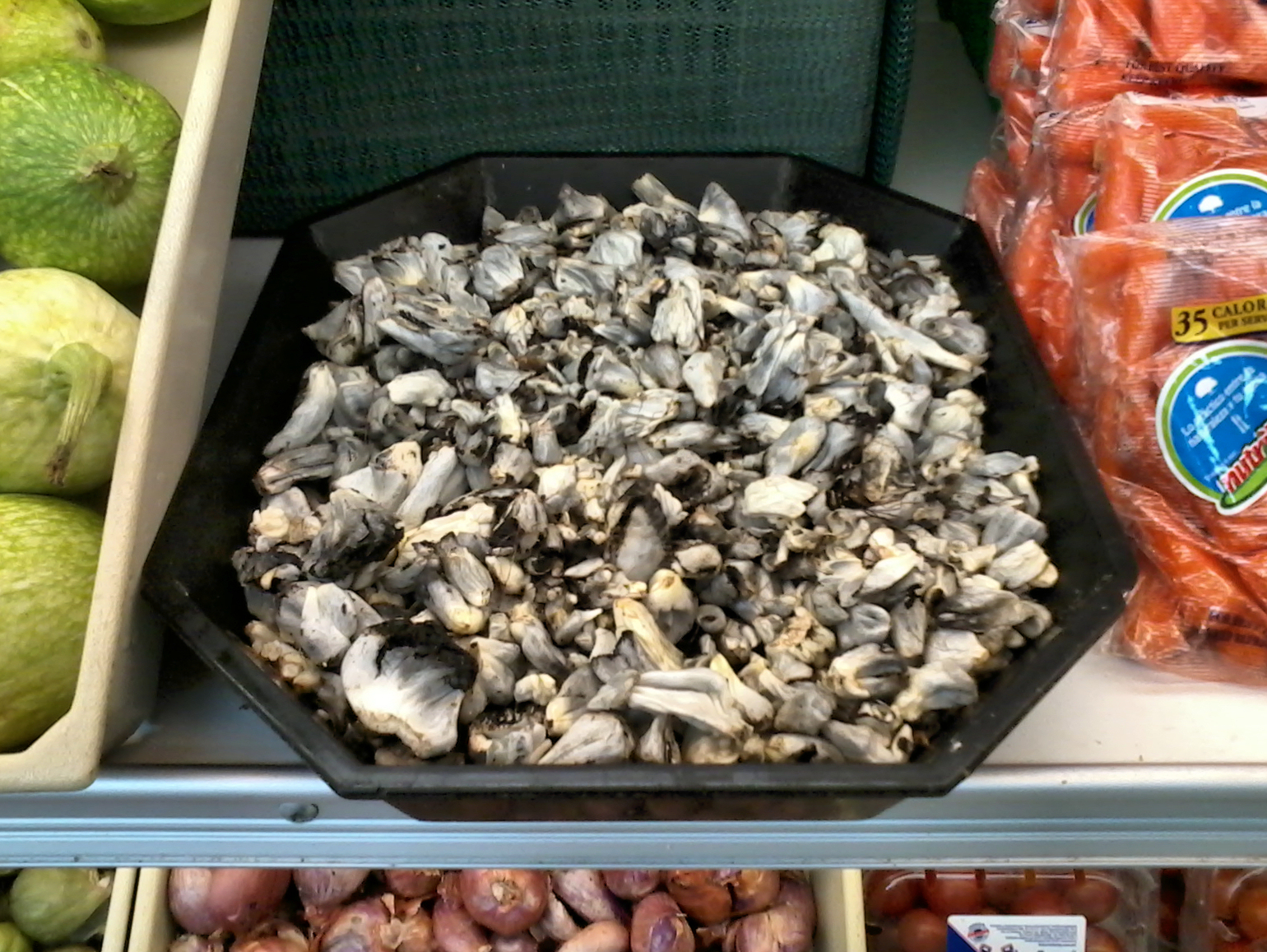 Huitlacoche being sold in the produce department of a Soriana store in Oaxaca de Juarez, Oaxaca, Mexico.